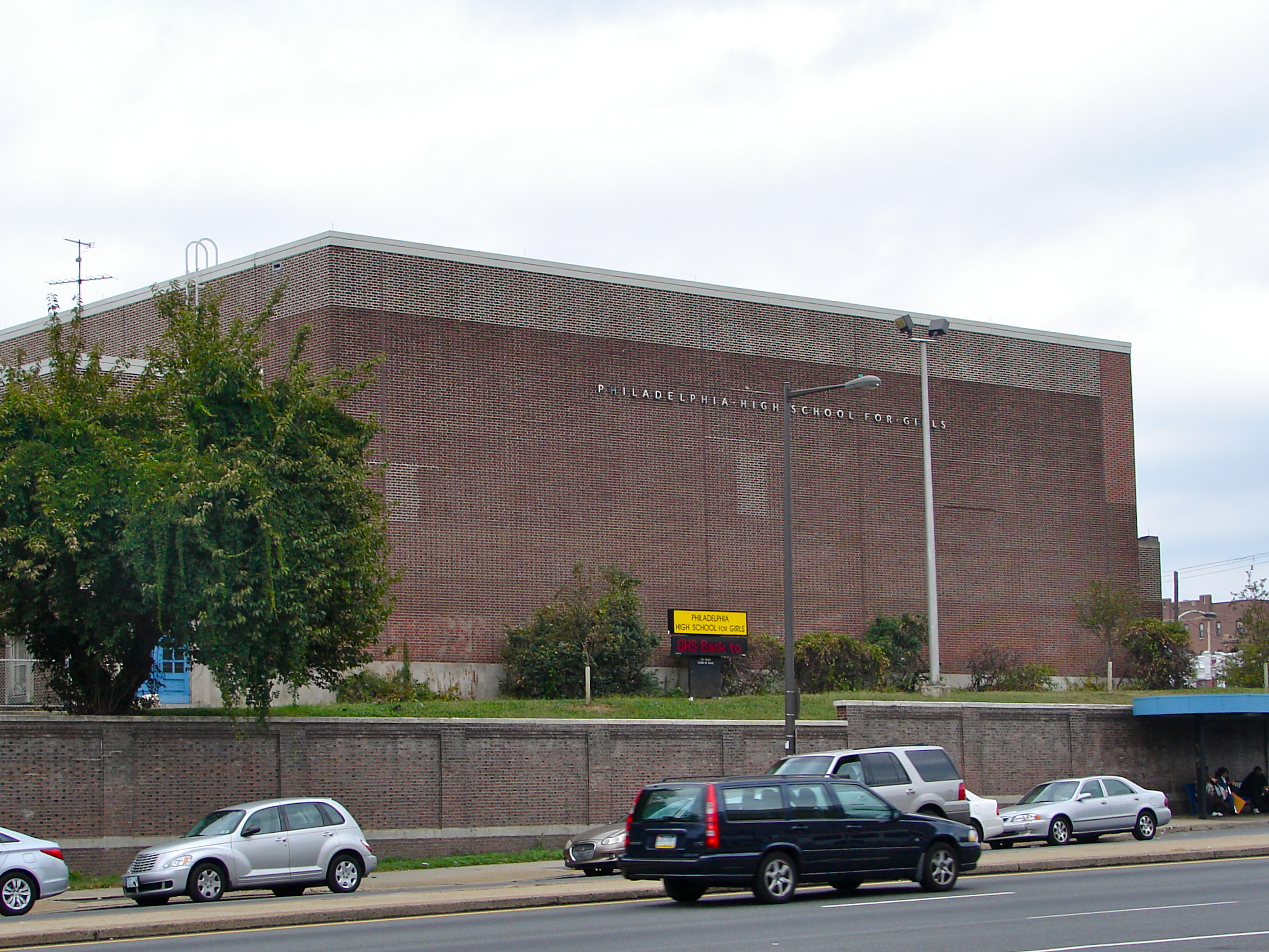 The Philadelphia High School for Girls from Broad Street, at 1400 W. Olney (Broad and Olney) in the Logan neighborhood of Philly. This building should not be confused with the Julia R. Masterman School, whose building formerly occupied by the Phila. HS for Girls, was added to the National Register of Historic Places in 1976. To add to the confusion Central High School and Widener Memorial High School are nearby.